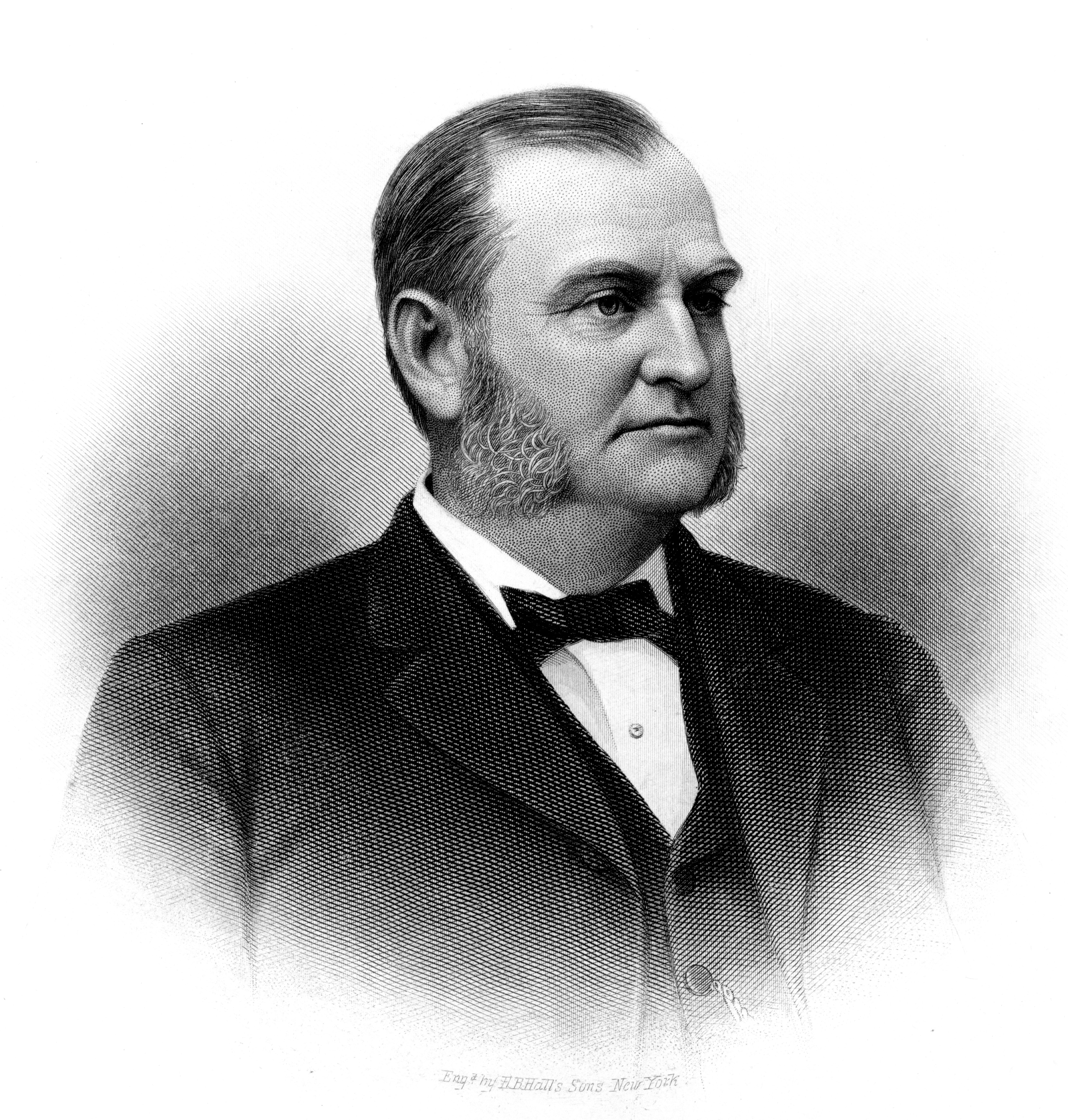 Oliver Ames 1831–1895. Governor of Massachusetts. Source: The New England States, their Constitutional, Judicial, Educational, Commercial, Professional, and Industrial History, by William T. Davies (1897)